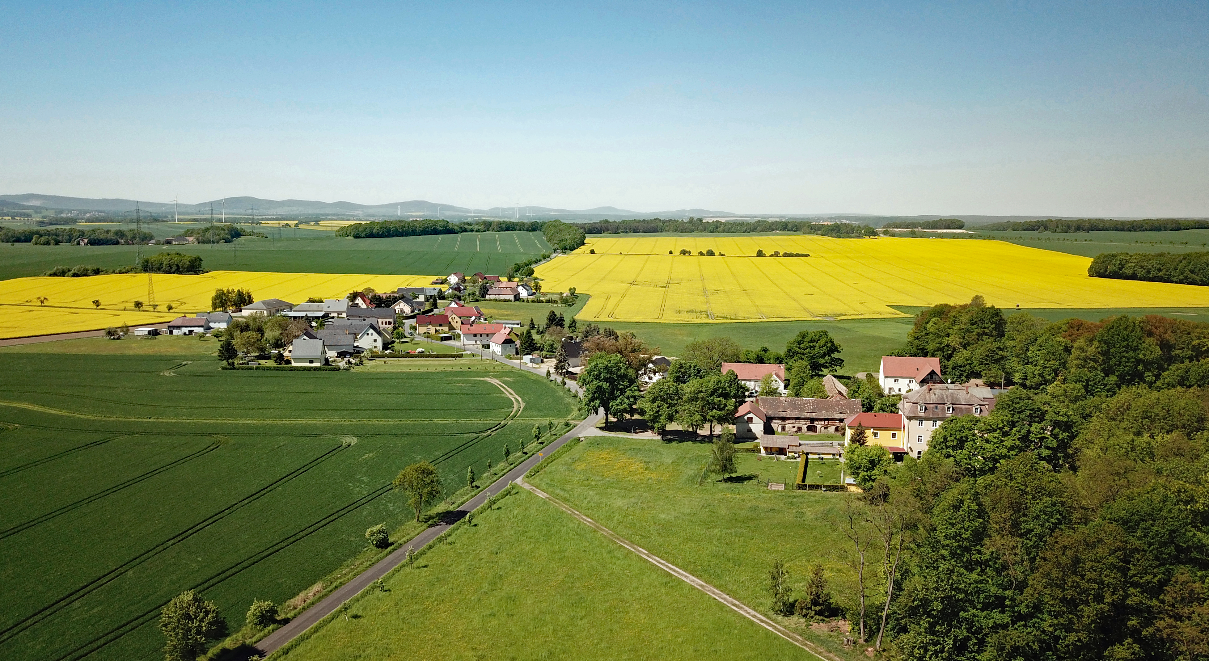 Lauske (Puschwitz, Saxony, Germany) Hornjoserbsce: Powětrowy wobraz Łusča